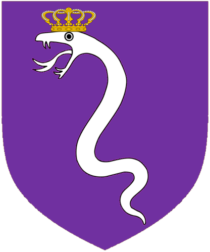 Shield of arms of Jean-Louis Michel Pierrot